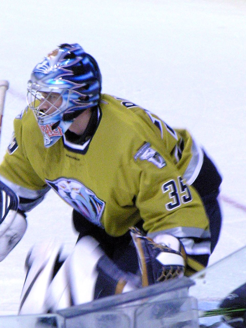 Pekka Rinne, a Finnish ice hockey goaltender